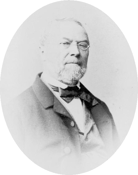 Joseph Labitzky (czech: Josef Labický), composer and conductor from Bohemia